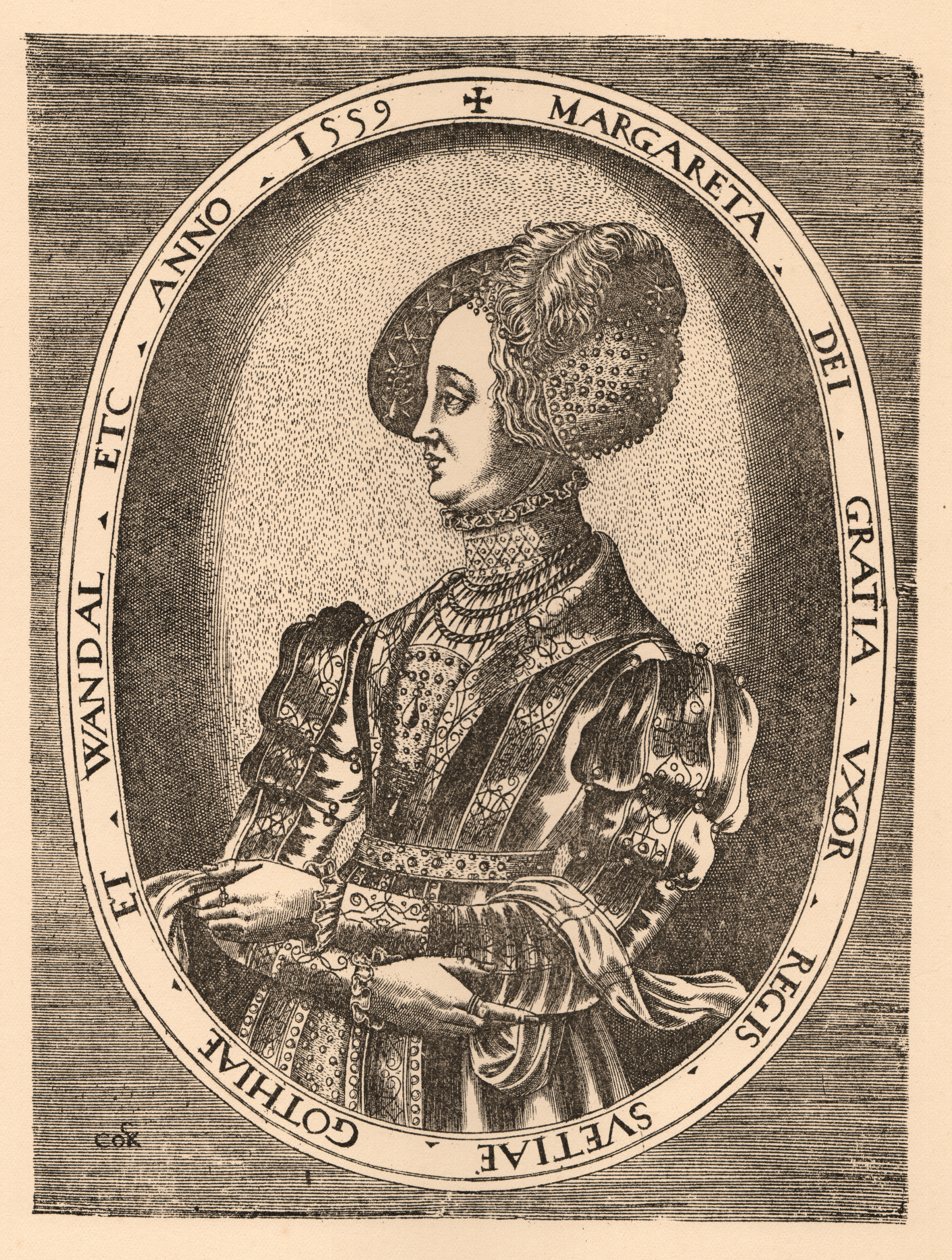 Margareta Eriksdotter (Leijonhufvud). Queen of Sweden from 1536 to 1551 as the wife of King Gustav I.